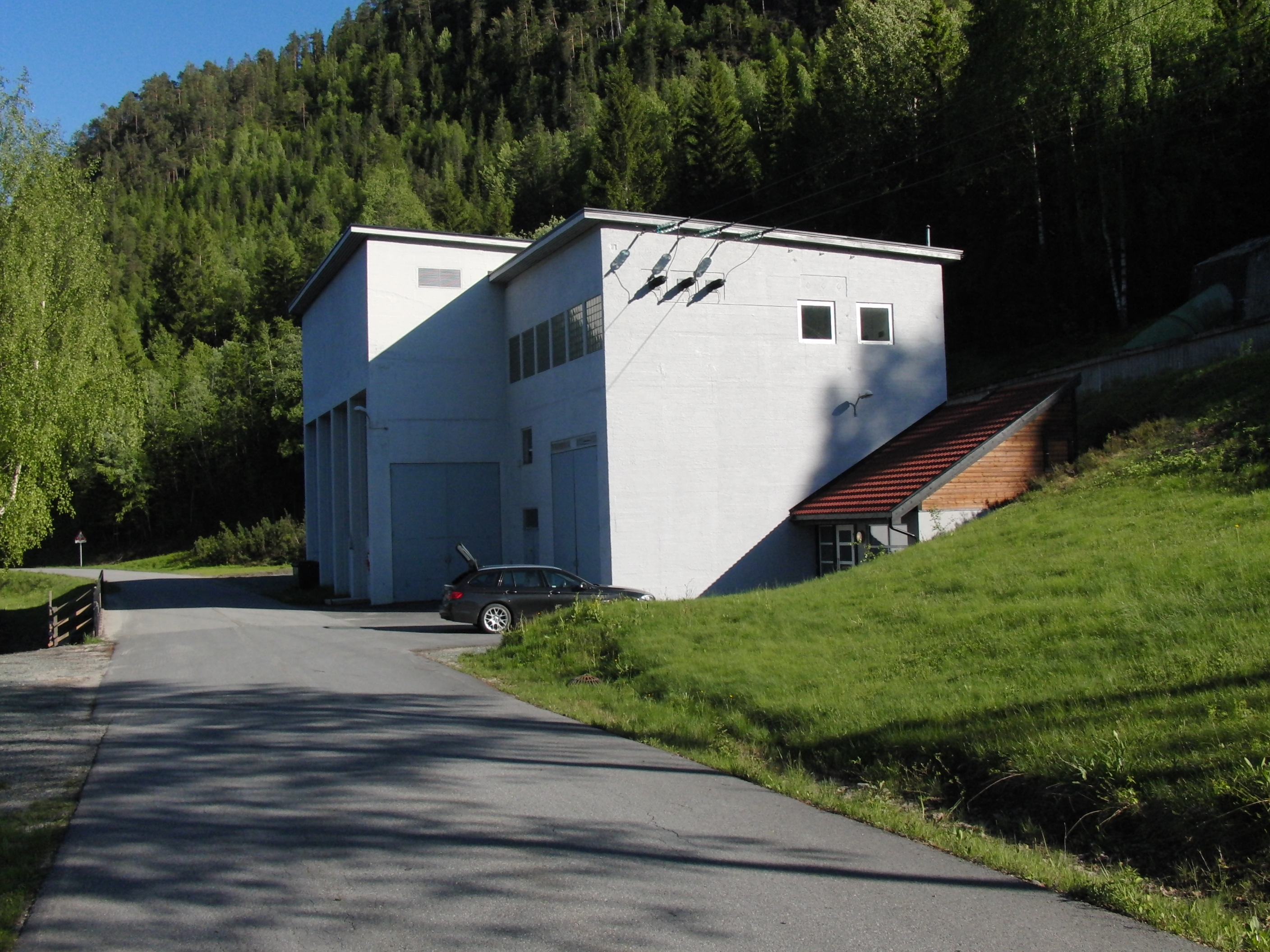 Osen kraftverk, Kviteseid.